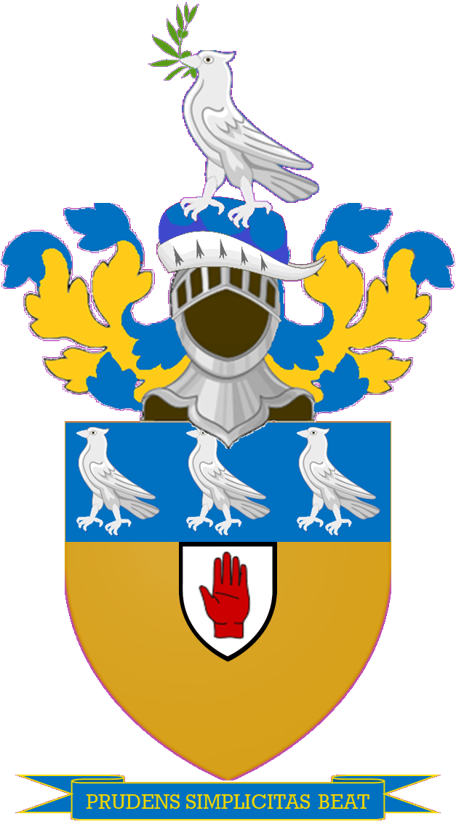 The armorial achievement of the Frederick baronets of Burwood House